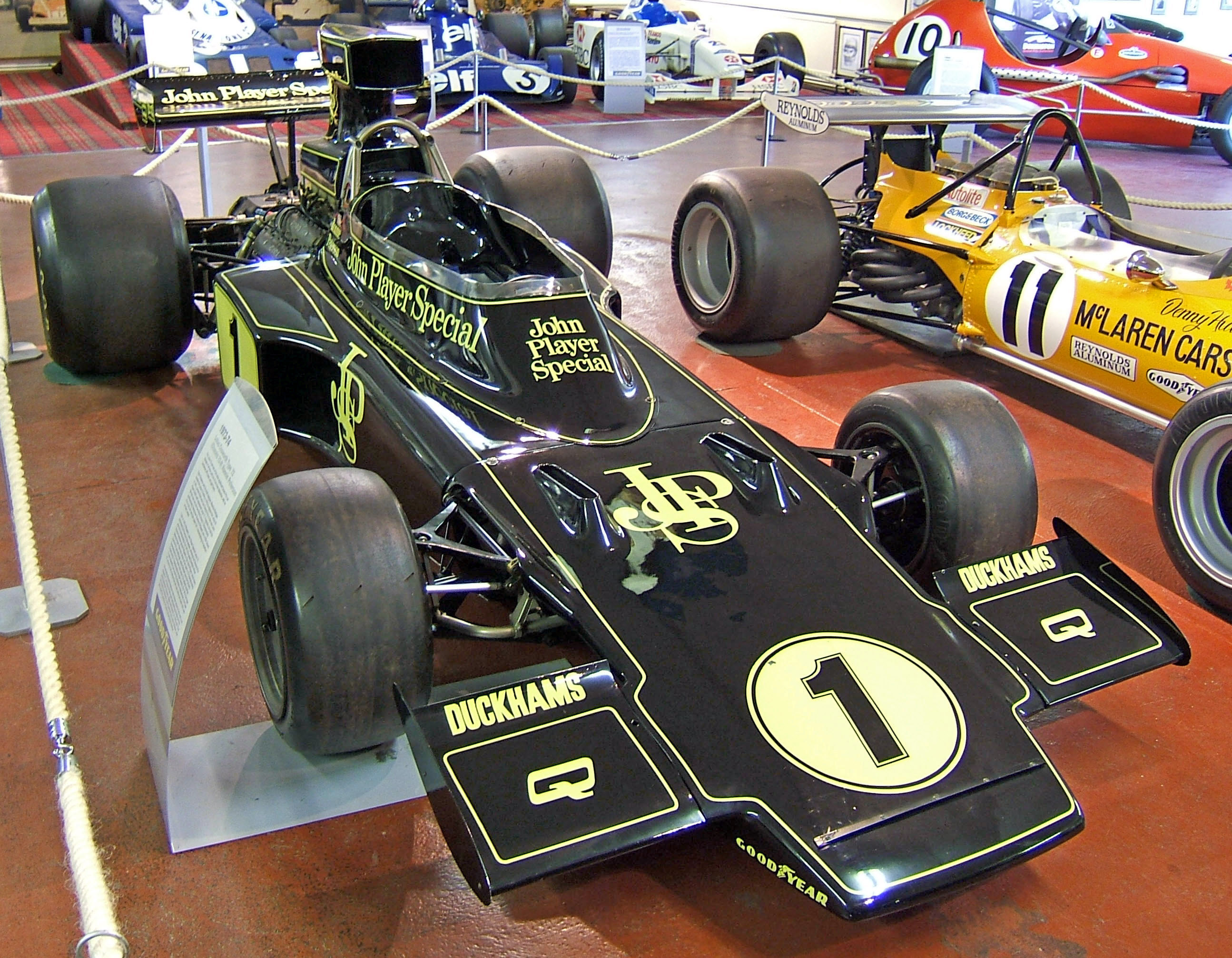 An ex-Ronnie Peterson, John Player Special liveried, Lotus 72E Formula One car (chassis R8). In the Donington Grand Prix Collection, Leics., UK